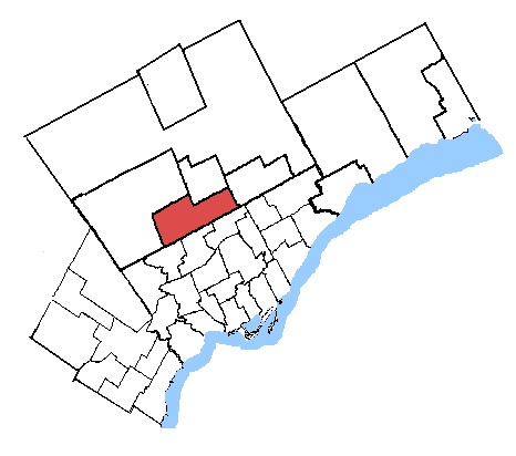 Map of the Thornhill electoral district. Based on Earl Andrew's maps, created by SimonP.